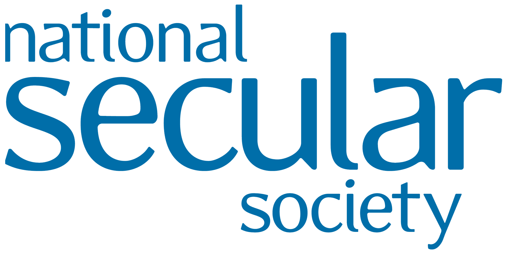 Logo of the National Secular Society (NSS).